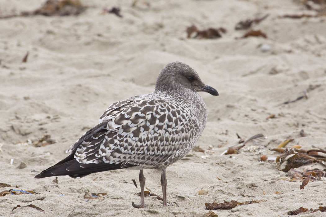 This was my first juvenile California Gull of the season, the same day I noted a few adult California Gulls in the gull flocks at Morro Strand State Beach, Morro Bay, California, USA.